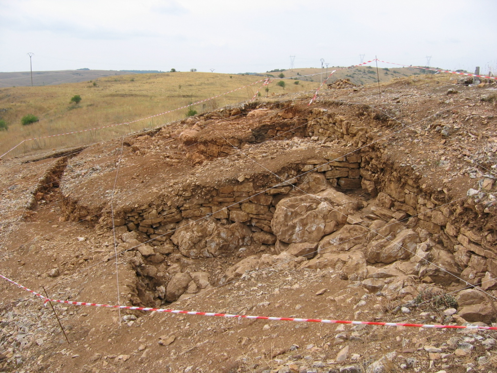 Archaeological excavations of the Castro de la Loma in Santibáñez de la Peña (Palencia, Castile and León).